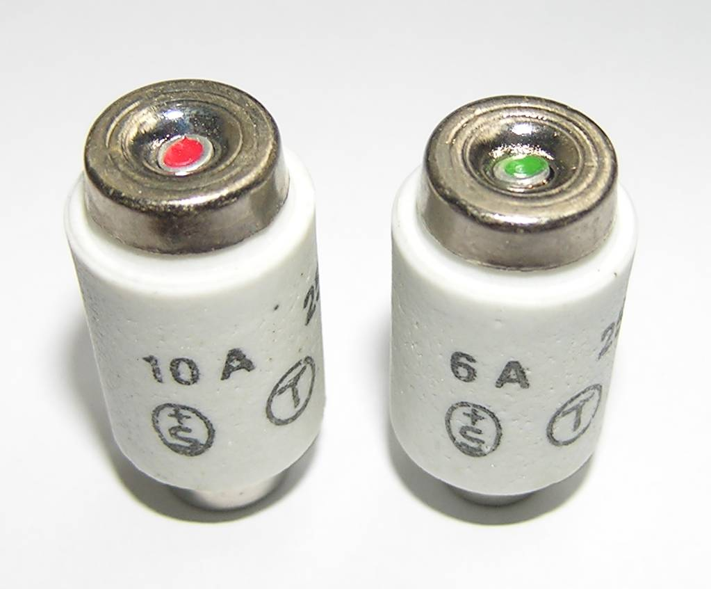 DI fuses: short Swiss "Diazed" type, ca 17×33 mm; 6 and 10 Amps